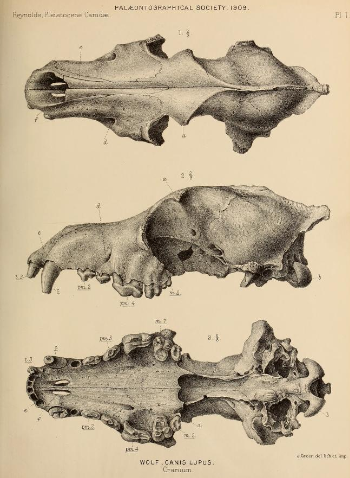 Wolf cranium from Kent's Cavern, Torquay.